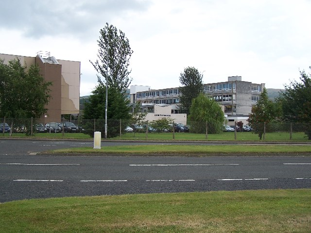 Craigendoran, Hermitage Academy.